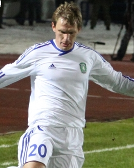 Yan Tsiharow